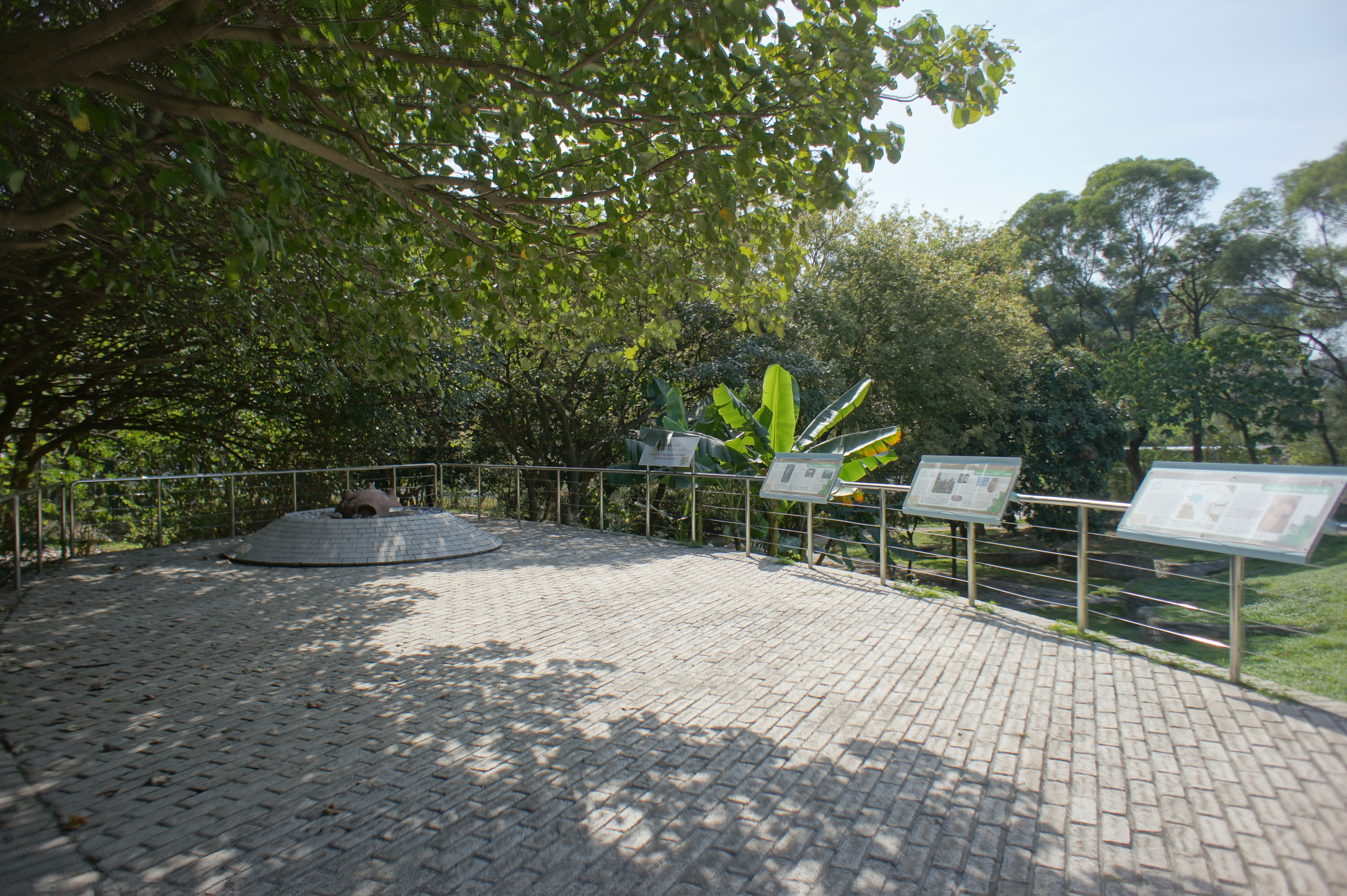 Ancient Kiln Park of Hong Kong International Airport